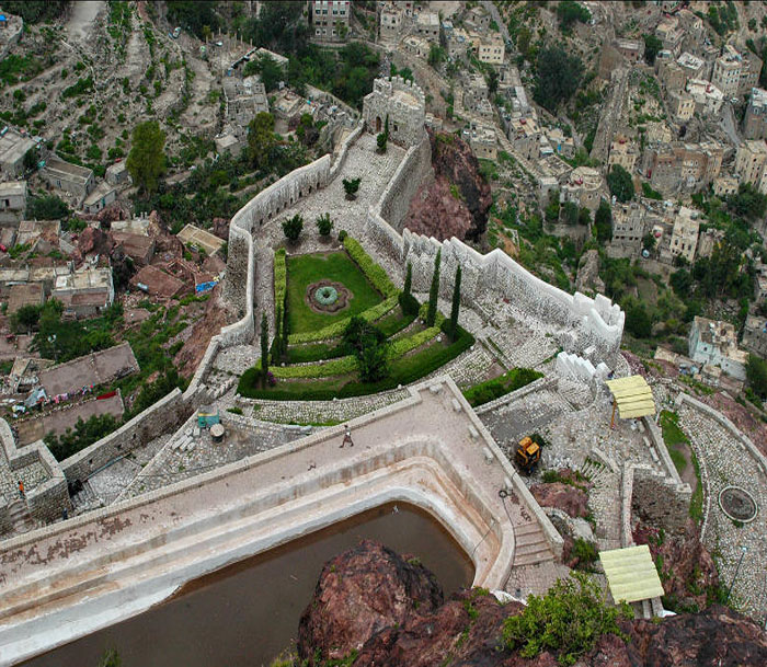 Alqahyra Castle in Taiz,Yemen